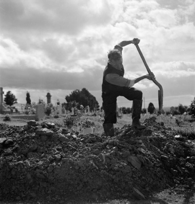 Local Government in a Country Town- Everyday Life in Wotton-under-edge, Gloucestershire, England, UK, 1944 Edward Mann, a gardener by trade, at work as cemetery caretaker and gravedigger in the local cemetery at Wotton-under-Edge. The original caption states that this cemetery is run by the Parish Council and was opened in 1919 when church and chapel cemeteries became too full. There is a Burial Board which deals with the upkeep and allotment of burial space.